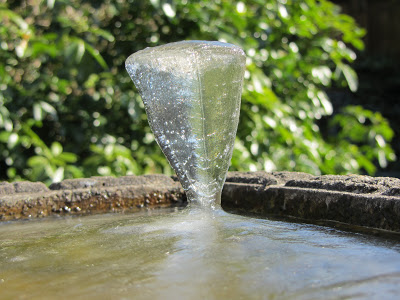 Inverted pyramid ice spike formed in a bird bath in Hampshire UK 2013